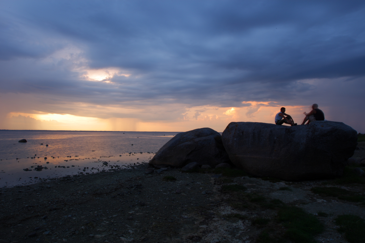 Nääri Stones, Matsalu National Park, Lääne County, Estonia